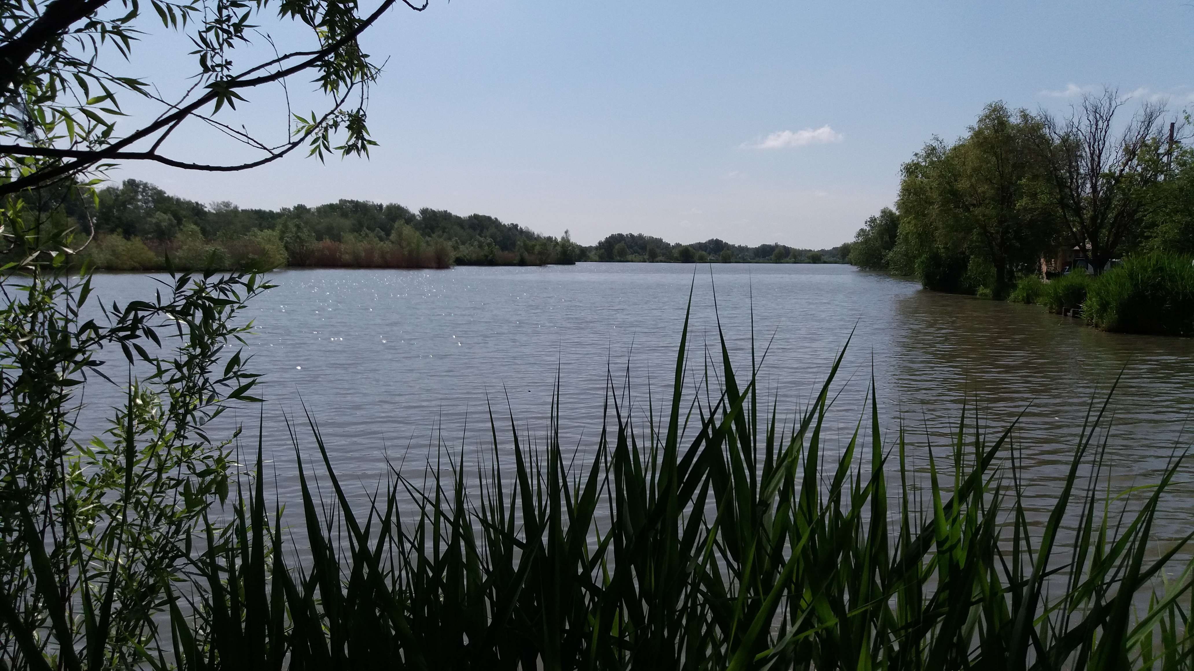 fishermen's lake